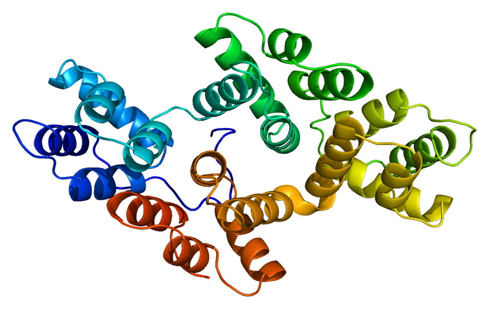 Structure of the ANXA3 protein. Based on PyMOL rendering of PDB 1aii.